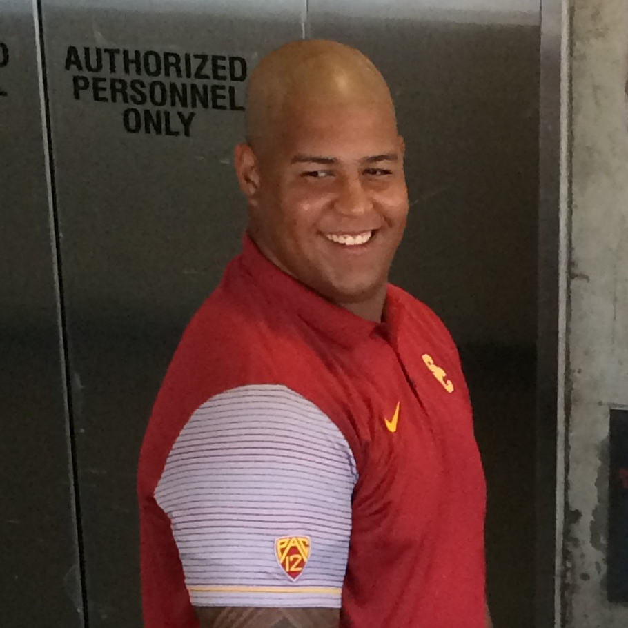 Zach Banner at the 2016 Pac-12 Conference Media Days in Los Angeles.